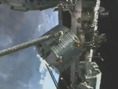 JEM ELM PS attachement to ISS